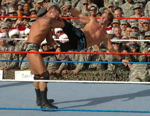 Chris Jericho hits an Enzuigiri on Randy Orton during the 2007 WWE Tribute to the Troops show at Iraq.